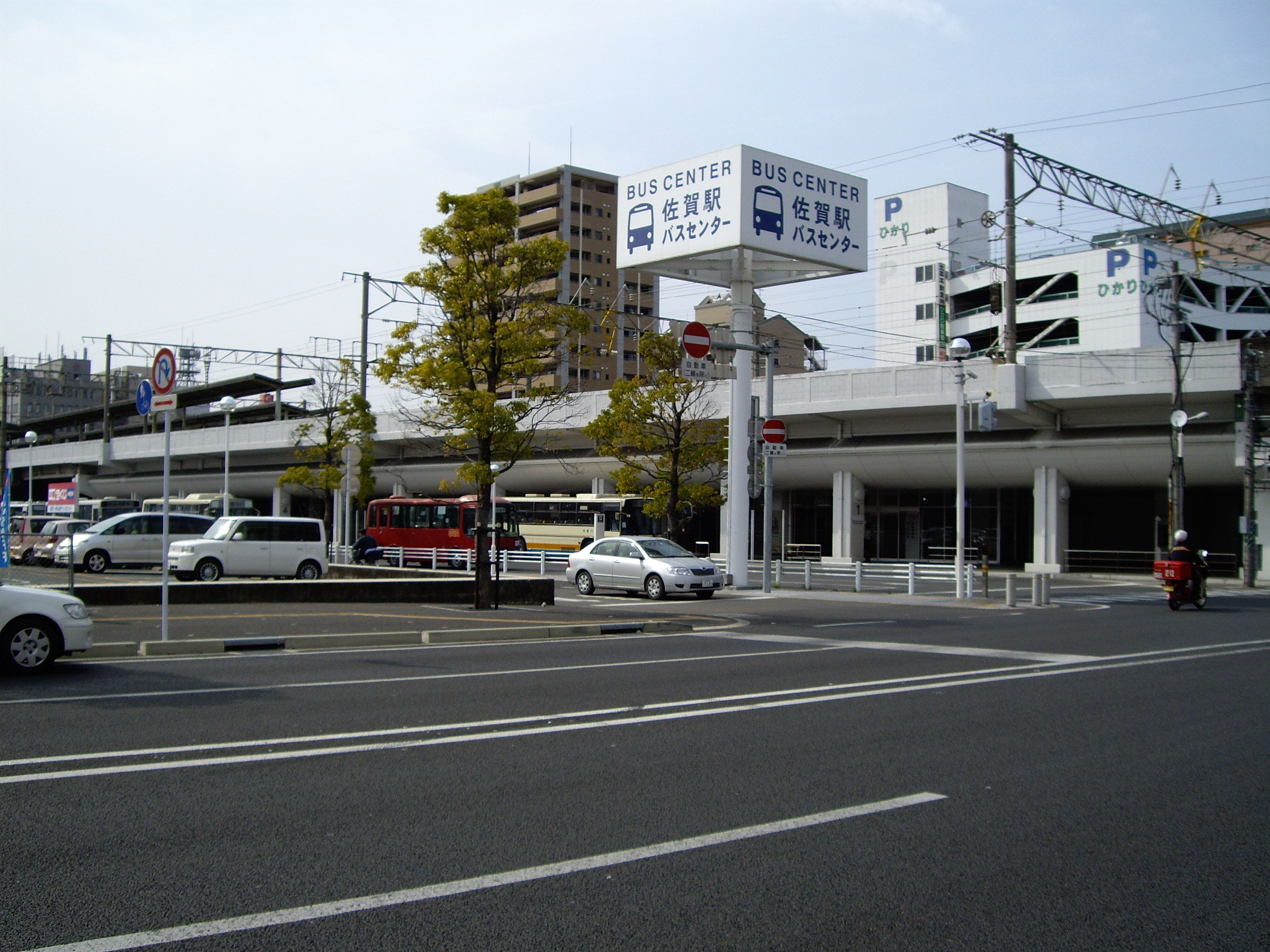 Saga Station Bus Center (佐賀駅バスセンター)